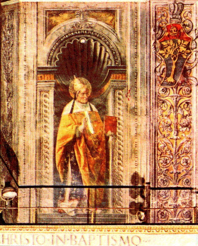 Pope Alexander I, painted in the Gallery of the Popes, Sistine Chapel (Rome, Italy)